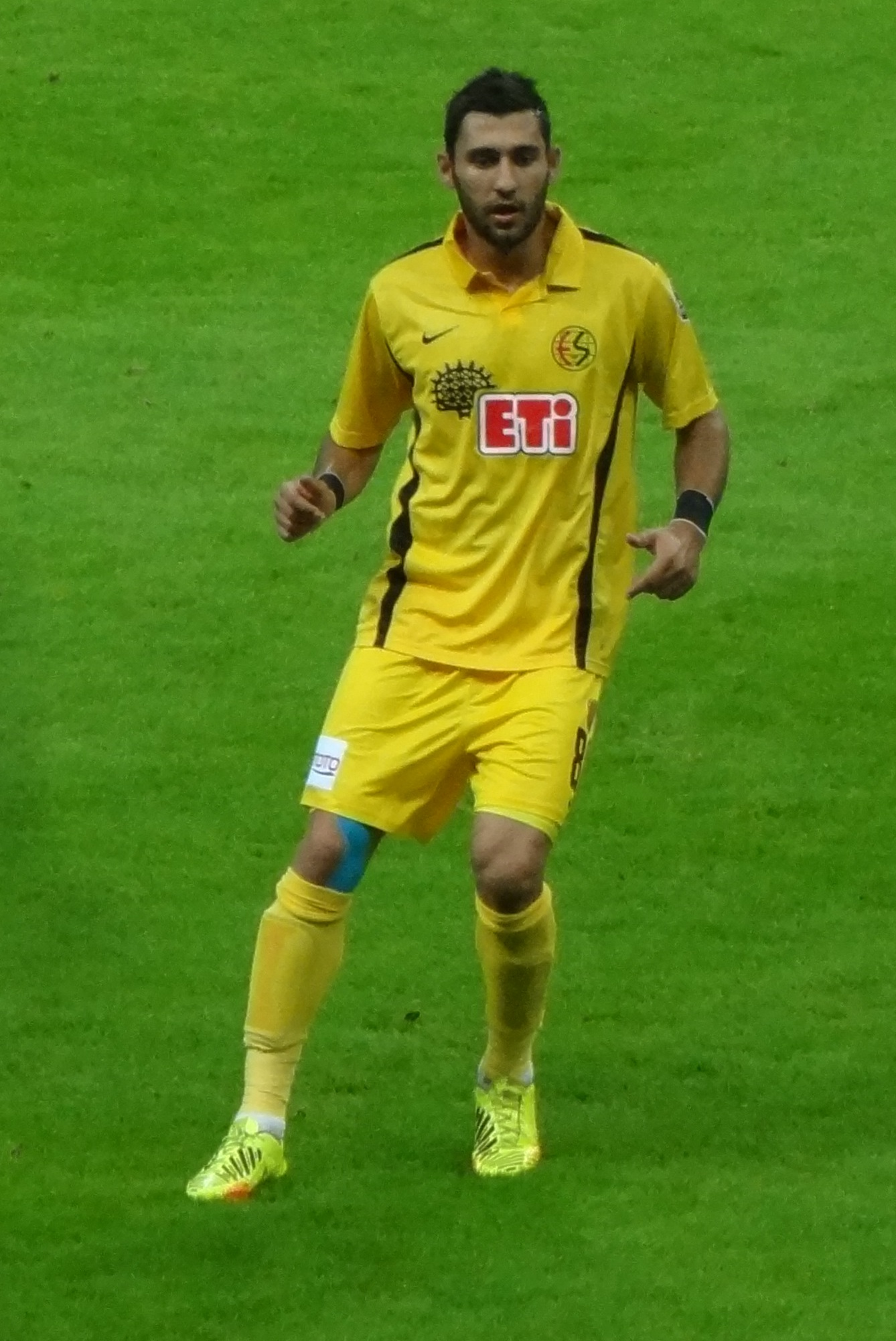 Veysel 6 Ekim 2012'de